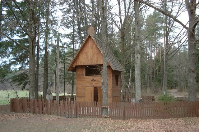 Poland, Holy Place chapel by Augustów.